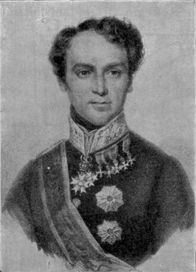 Domenico Lo Faso Pietrasanta (1773–1863), Duke of Serradifalco in Sicily, archaeologist